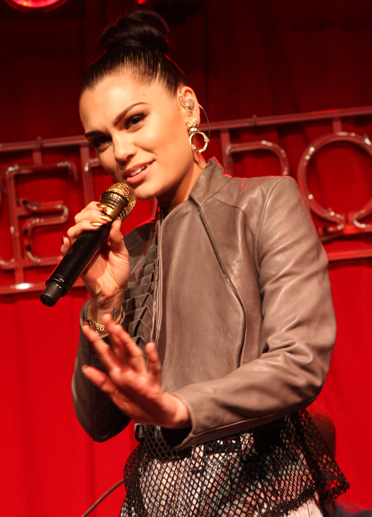 Jessie J: 2012 Nova's Red Room - The Star, In Sydney Australia.